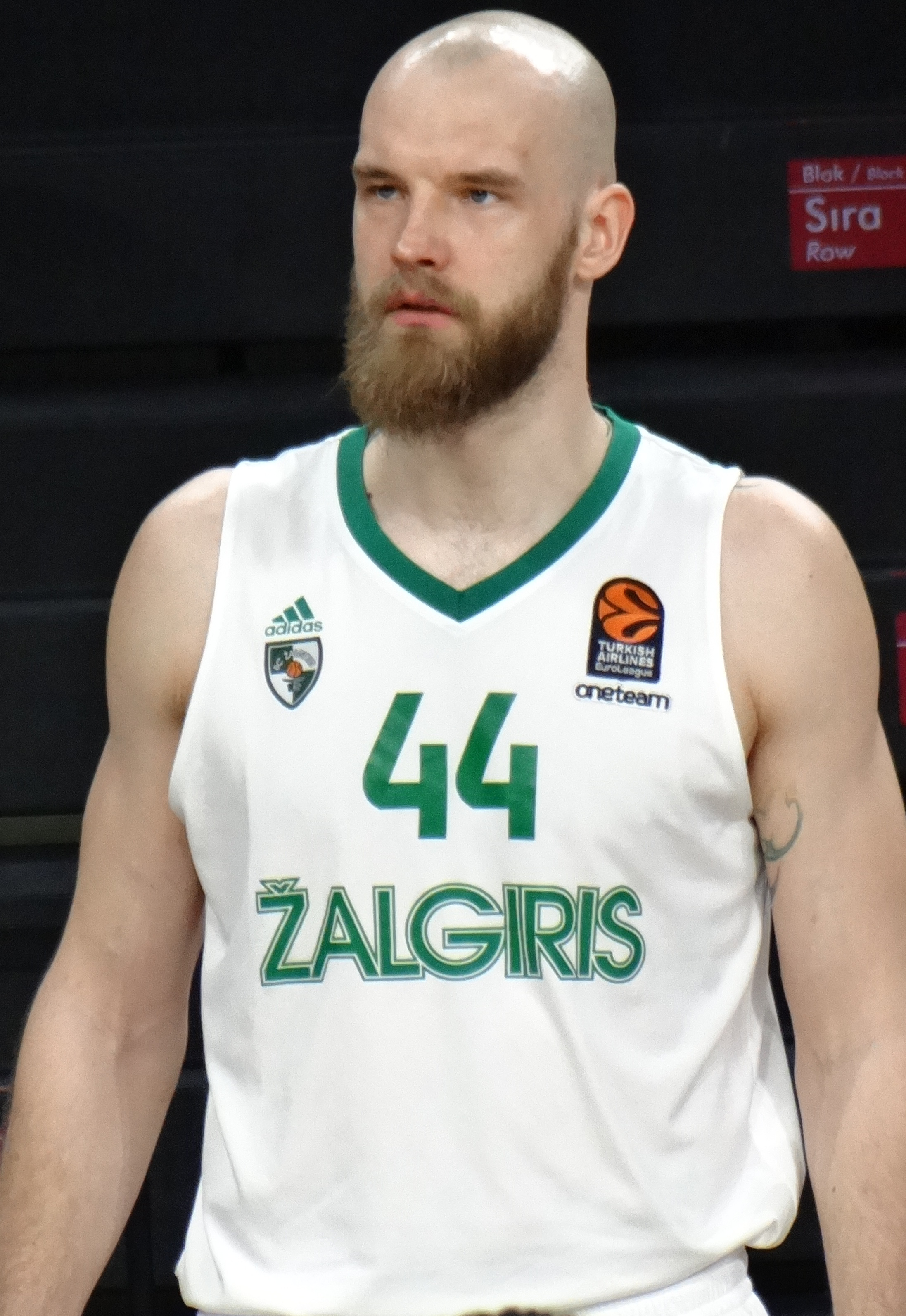 Antanas Kavaliauskas 44 BC Žalgiris EuroLeague 20180223